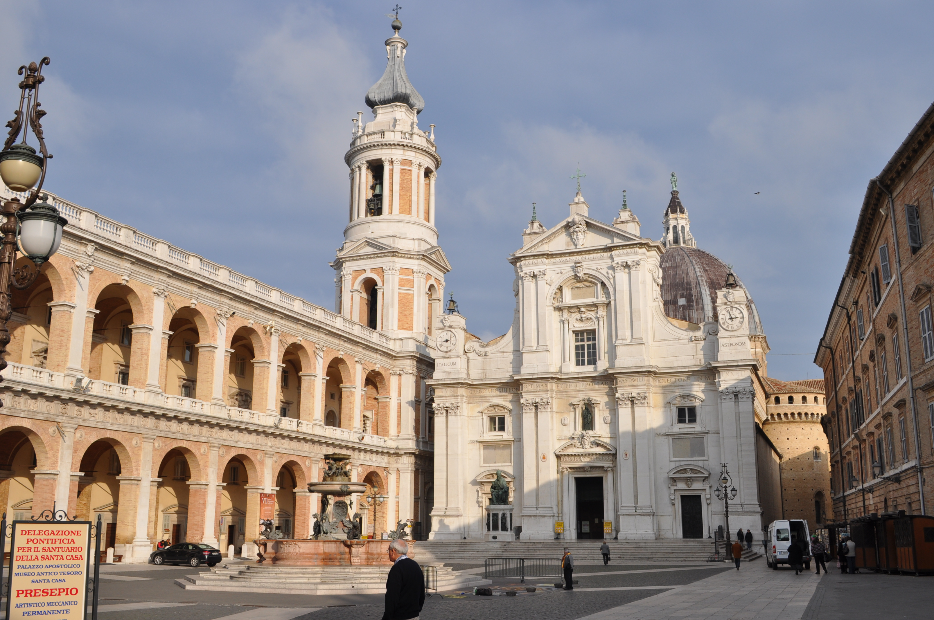 basilica of loreto